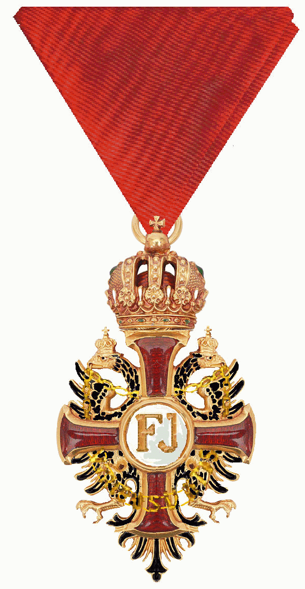 Cross of the Francis Joseph Order